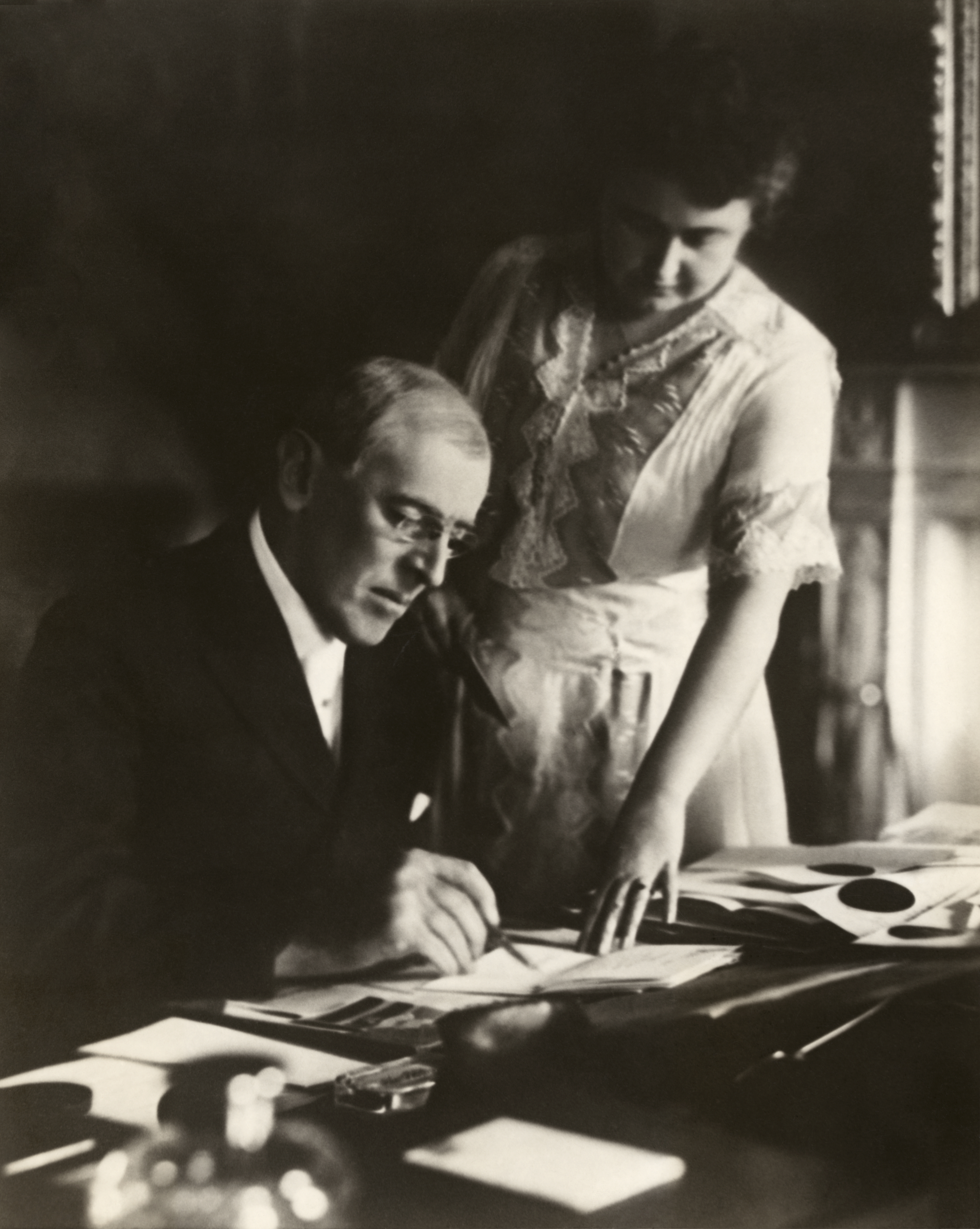 President Woodrow Wilson, seated at desk with his wife, Edith Bolling Galt, standing at his side. First posed picture after Mr. Wilson's illness, White House, June 1920. Mrs. Wilson holds a document while the President adds his signature.